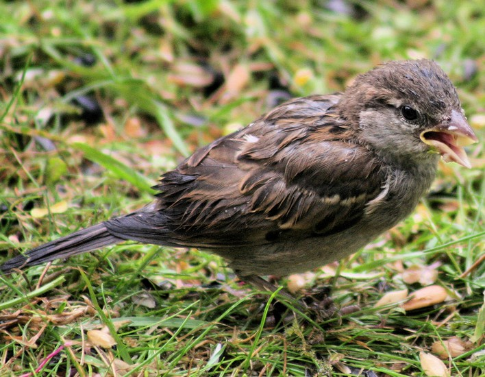 A young House Sparrow on a garden lawn in Sutherland, Dornoch, Scotland. It left the nest the day before with several other chicks. Its parents were close by and protective.